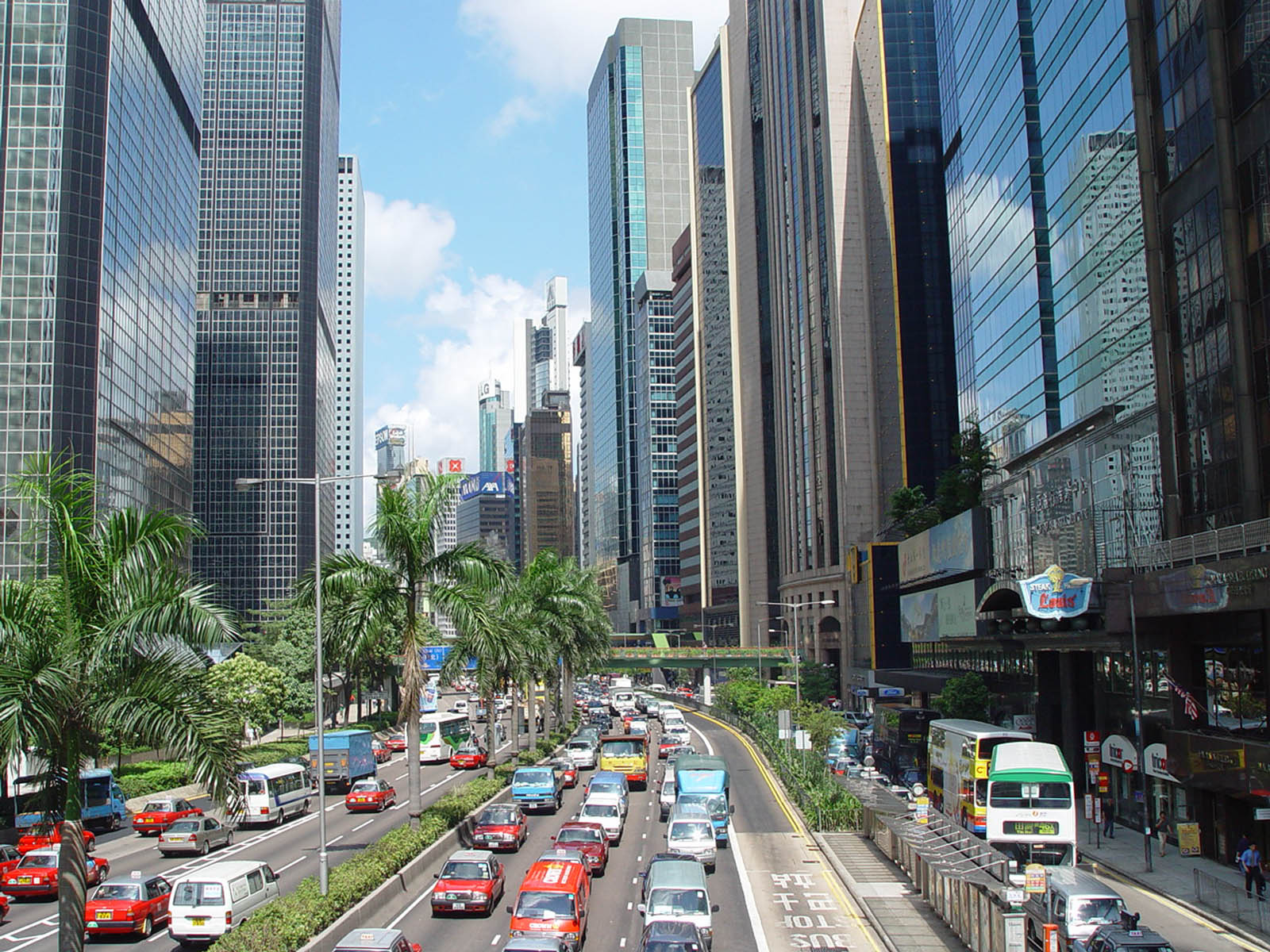 Hong Kong (Aug. 7, 2003) -- Hong Kong city recently hosted the Carl Vinson Carrier Strike Group for a five-day port visit. The Carl Vinson Strike Group is the first group of U.S. Navy sailors to visit Hong Kong since the city’s triumph over severe acute respiratory syndrome (SARS). The Vinson Carrier Strike Group is currently on an extended deployment in the Western Pacific. U.S. Navy photo by Airman Travis Burns. (RELEASED)